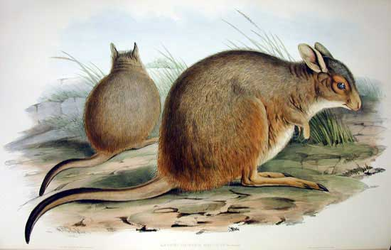 Lagorchestes hirsutus